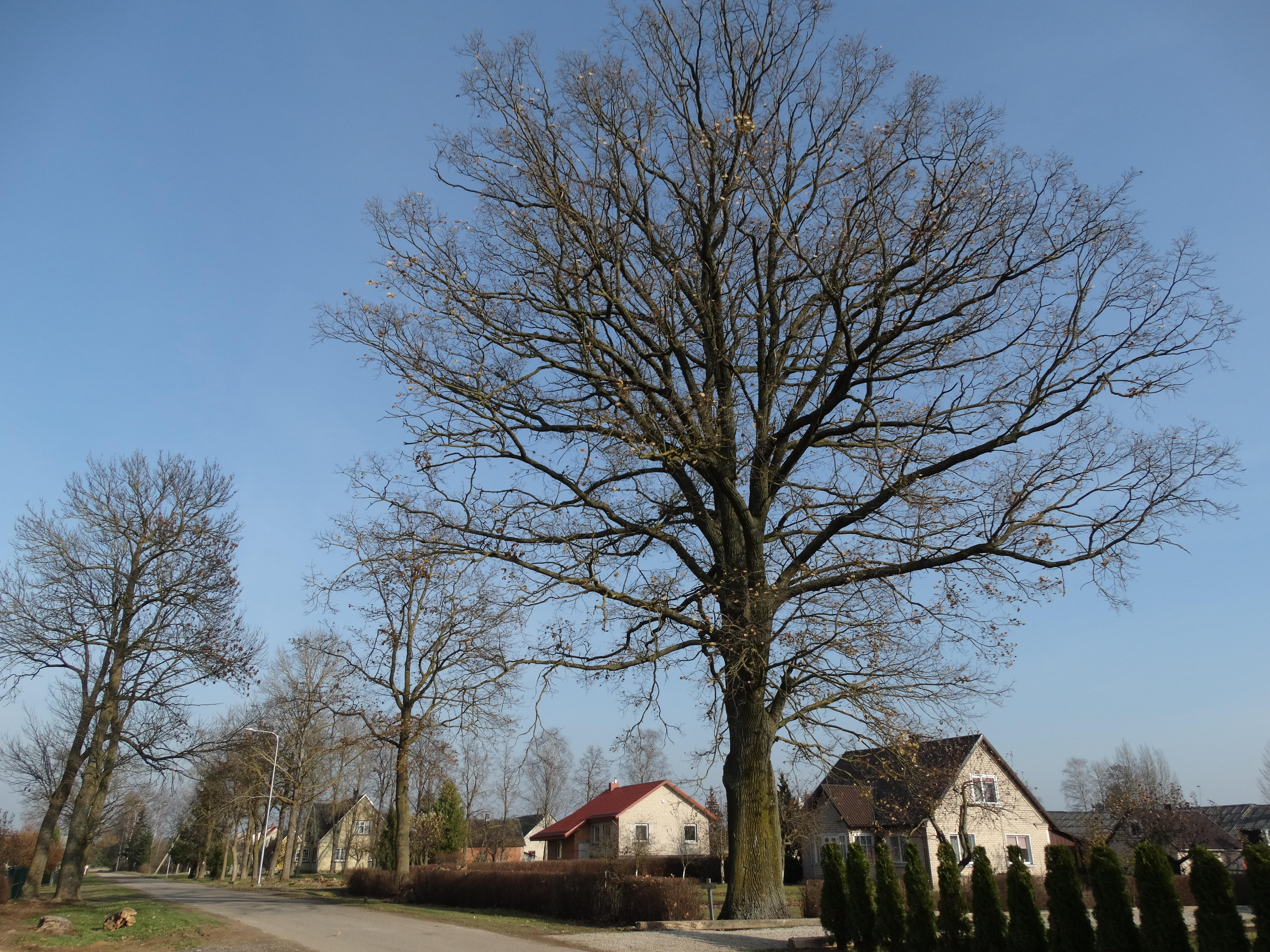 Oak tree in Girsūdai, Pasvalys District, Lithuania